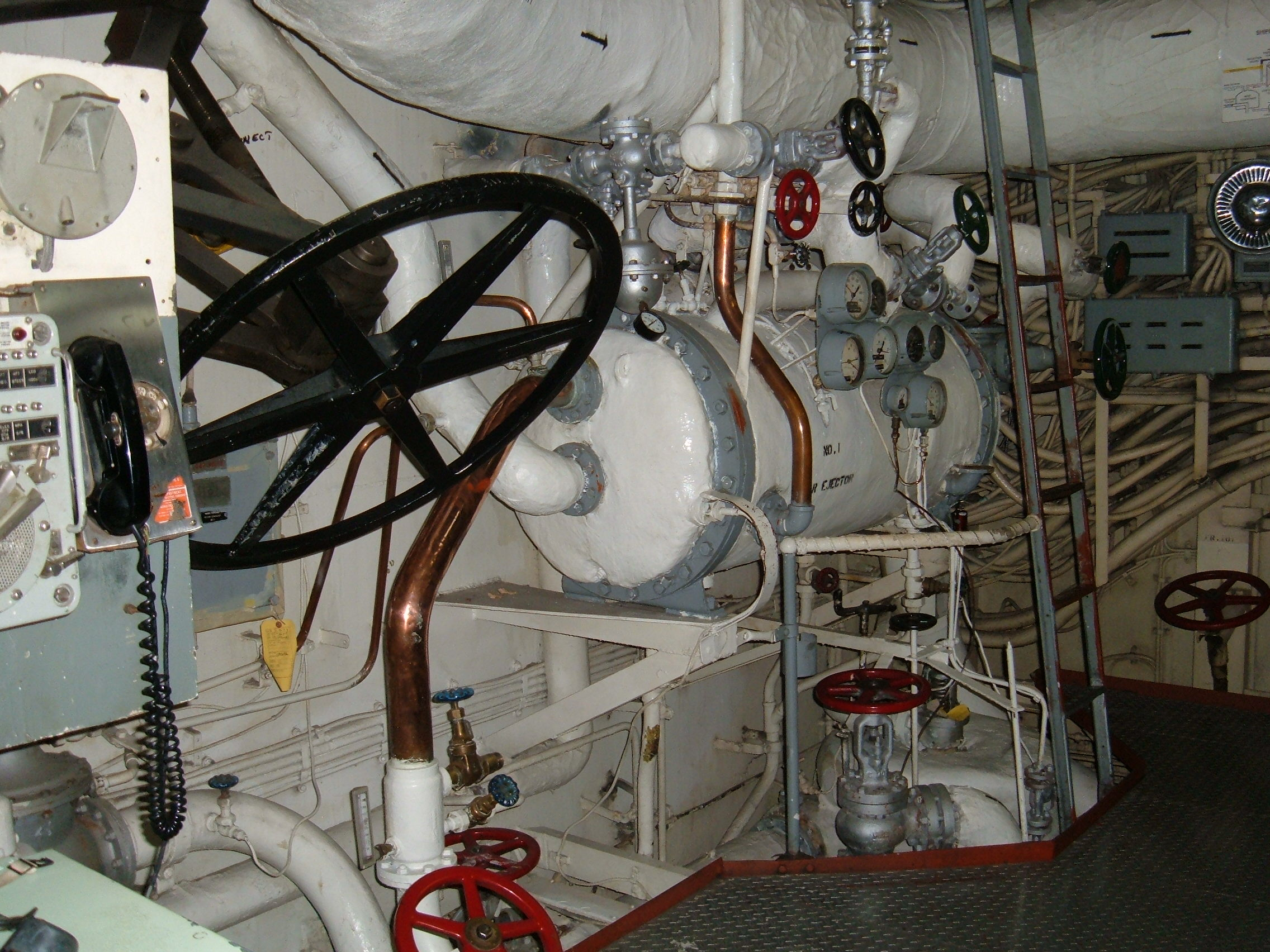 View 3 of the forward engine room of the USS Hornet (CV-12).